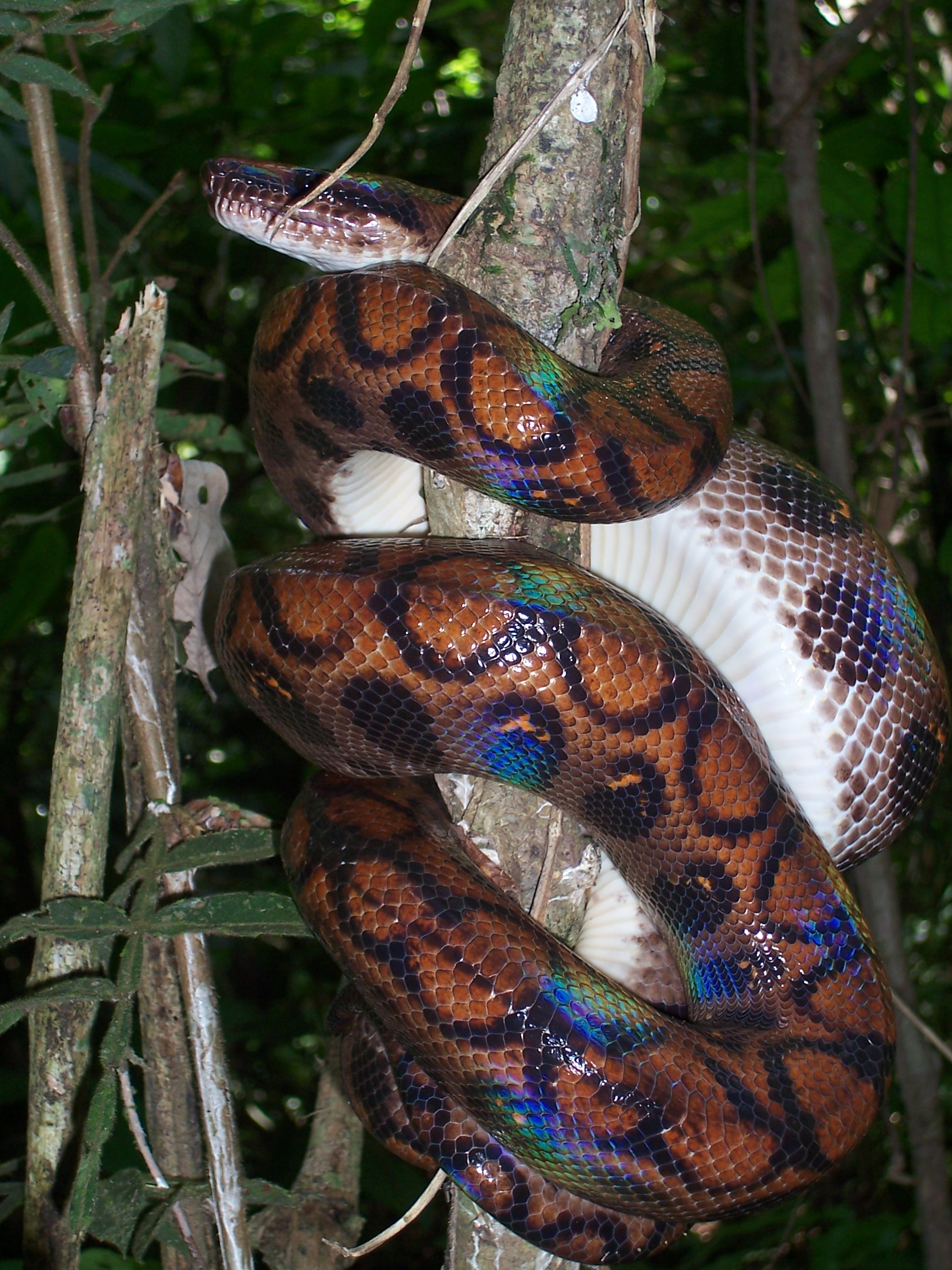 Rainbow Boa. E. c. gaigei. Taken in Peruvian rain forest.